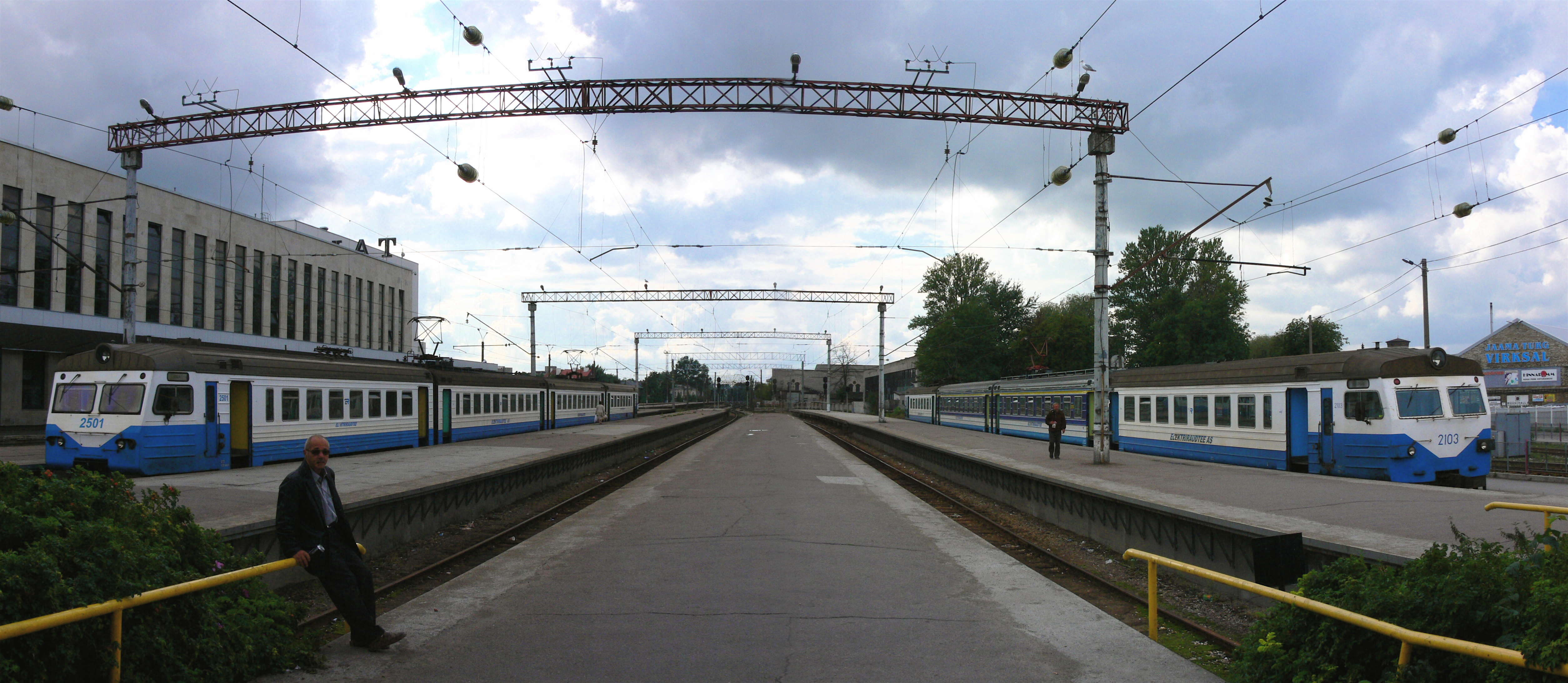 Tallinn Electric Train Station panorama in Estonia